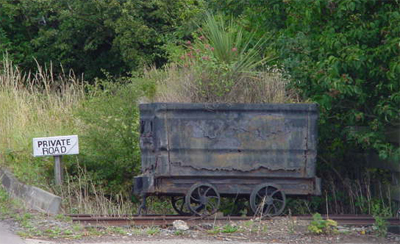 Goods train carriages marking George Stephenson's Rocket and other locomotives and mining technology, Killingworth, Tyne and Wear, UK.